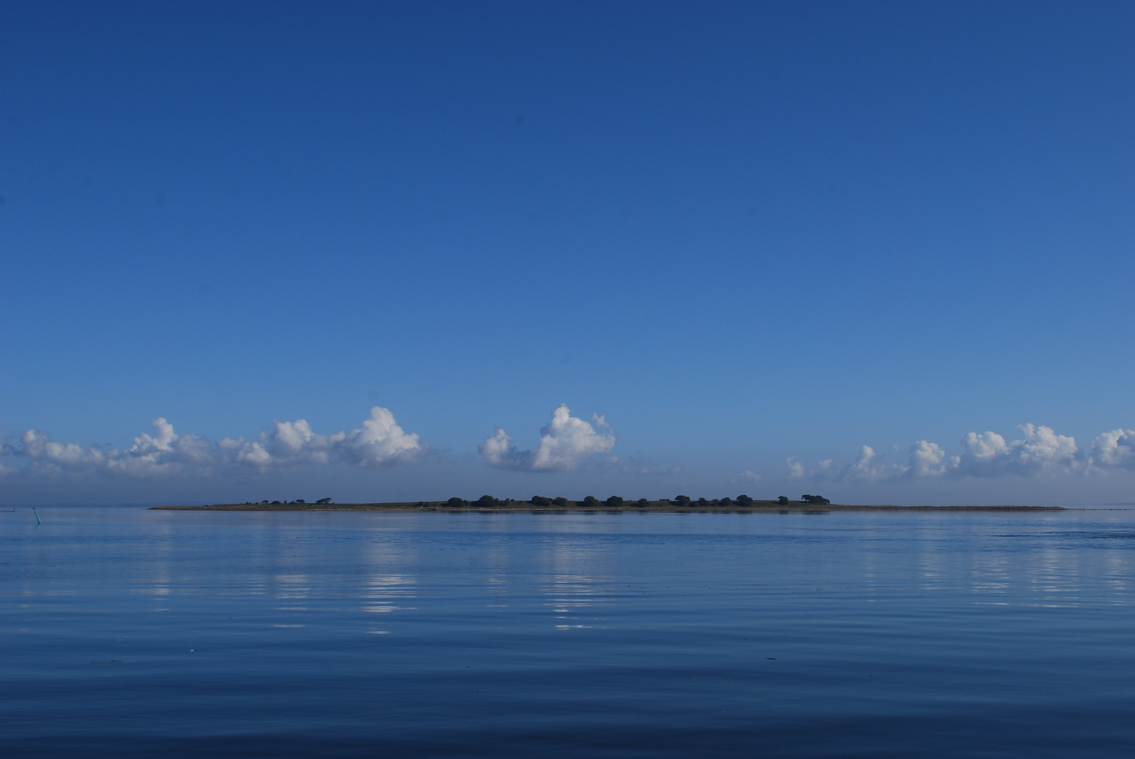 Dejrø is an island in Denmark and is nearby to Ærøskøbing, Ærø